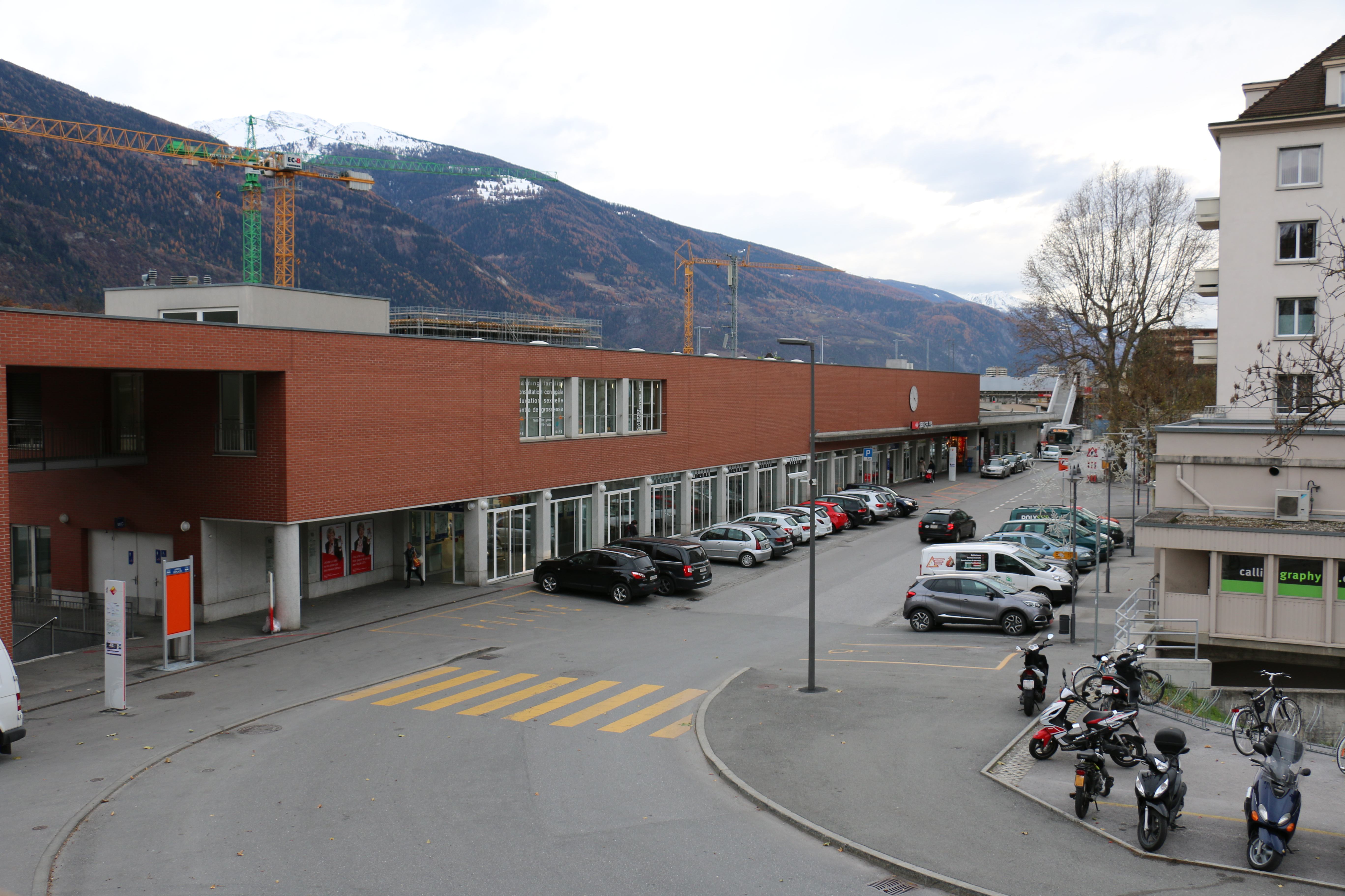 Sierre/Siders train station